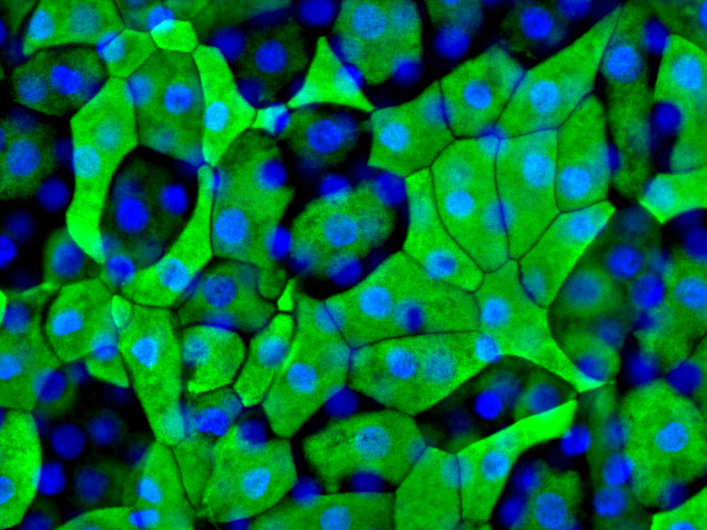 corneal epithelium was stained by immunofluorescence using cytokeratin 3 et 12